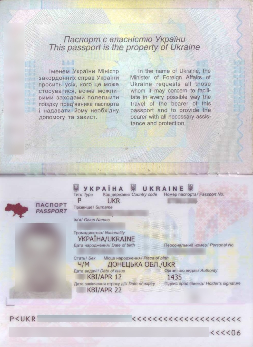 Ukrainian passport 2004